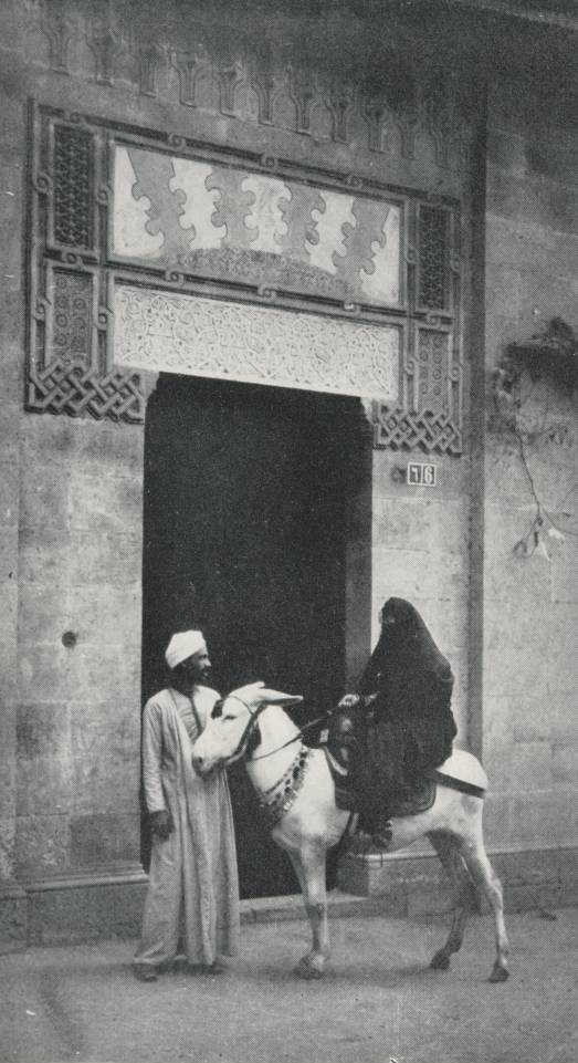 “ARAB WOMAN AND DONKEY-BOY”A veiled woman sits on a donkey while a man stands nearby.